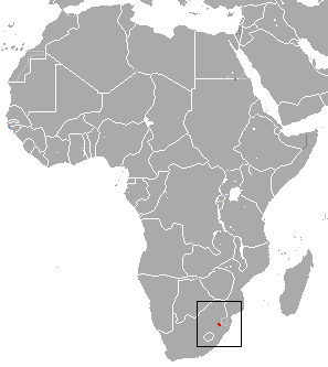 Thin Mouse Shrew (Myosorex tenuis) range